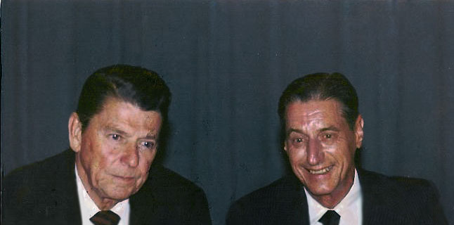 Picture of Joseph Granville and Ronald Reagan. Property of Johanna Granville.